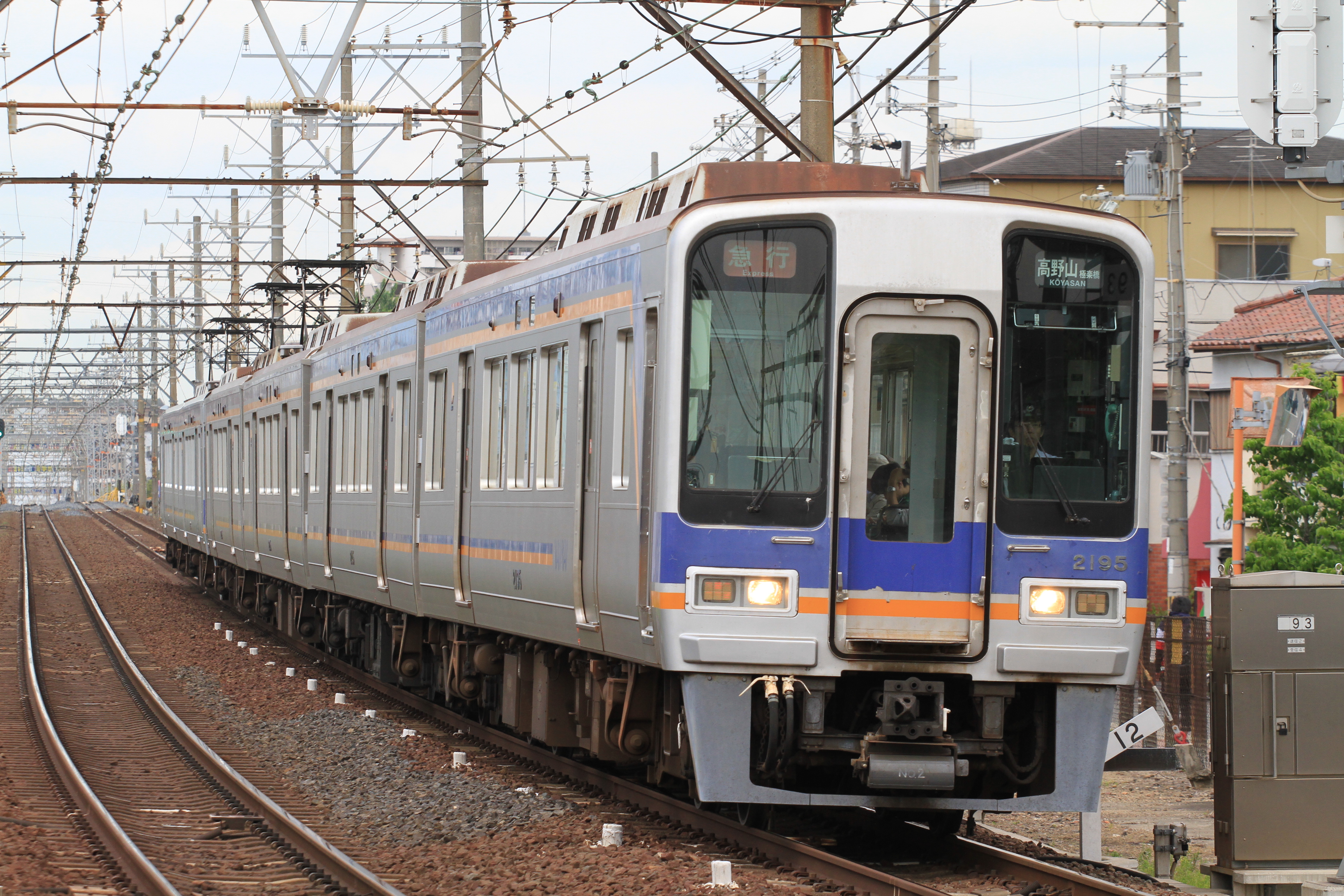 Nankai Electric Railway 2000 series EMU set 2195 approaching Asakayama Station